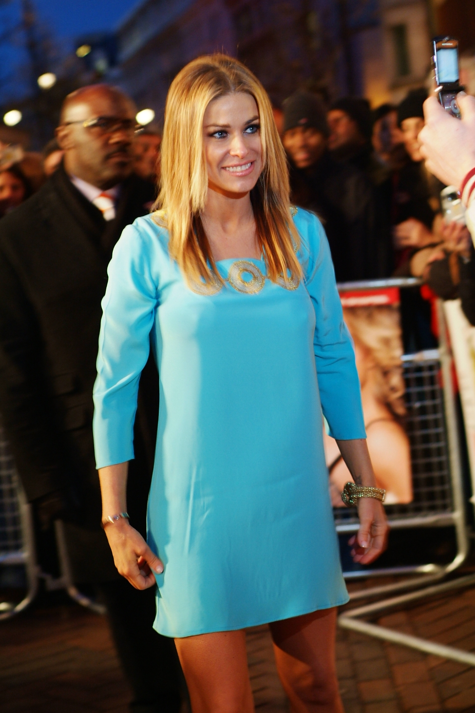 Carmen Electra at I want Candy London Movie Premiere.